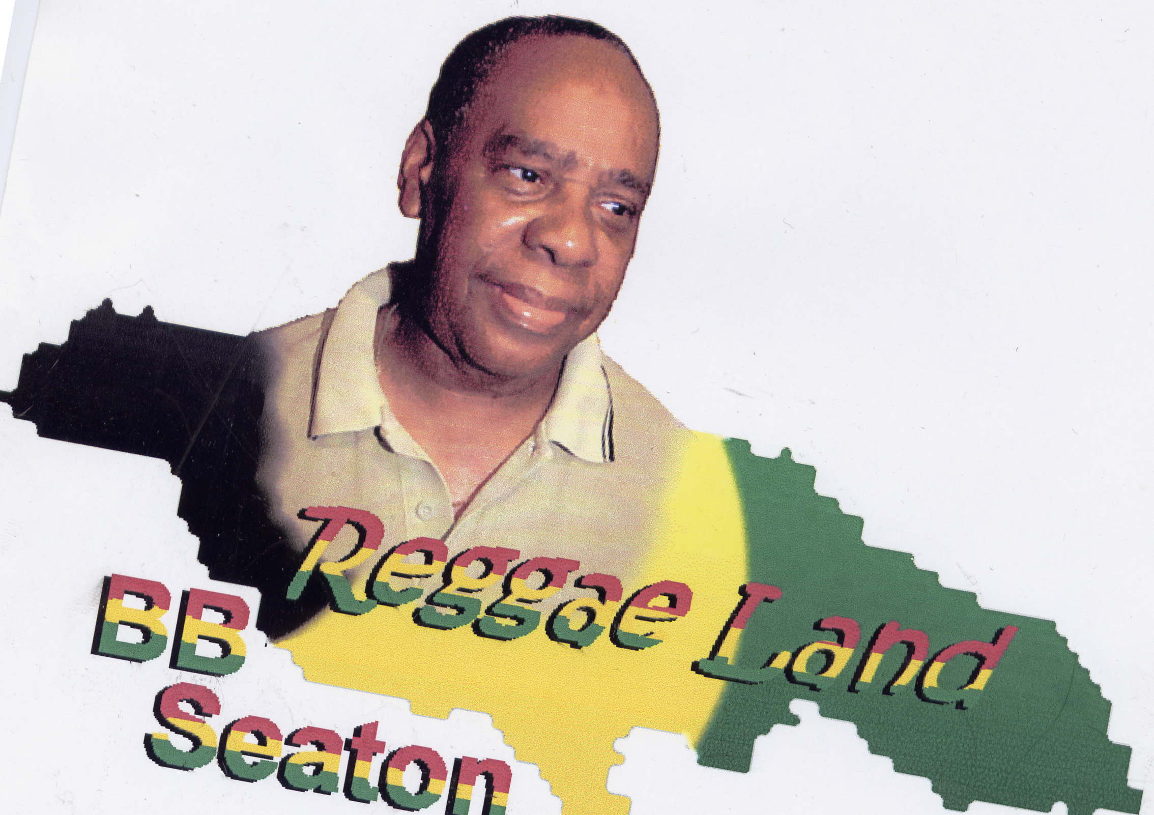 Picture uploaded with agreement of the copyright holder. Agreement signed by B.B. Seaton